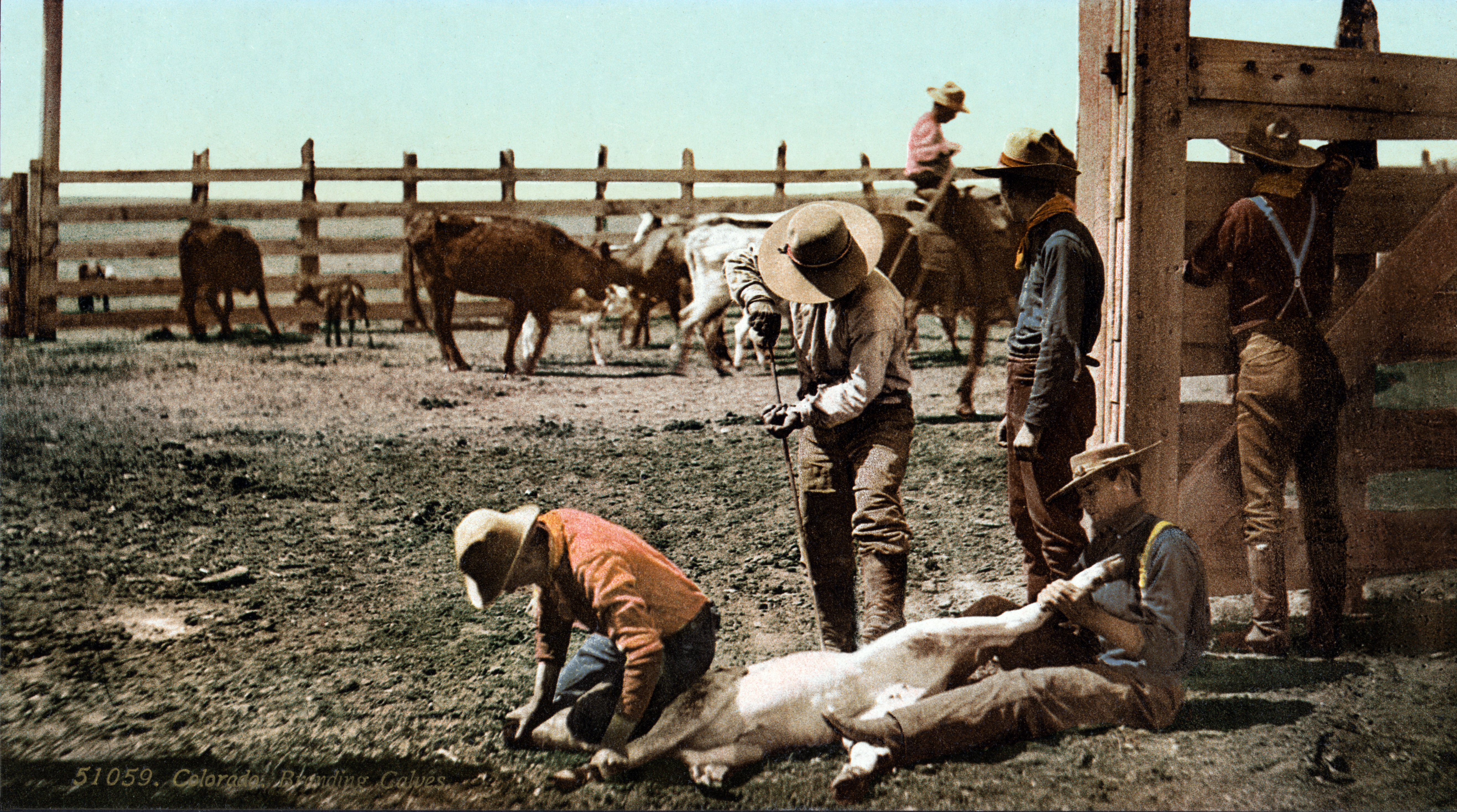 Colorado. Branding calves, a photochrom print by the Detroit Photographic Co.